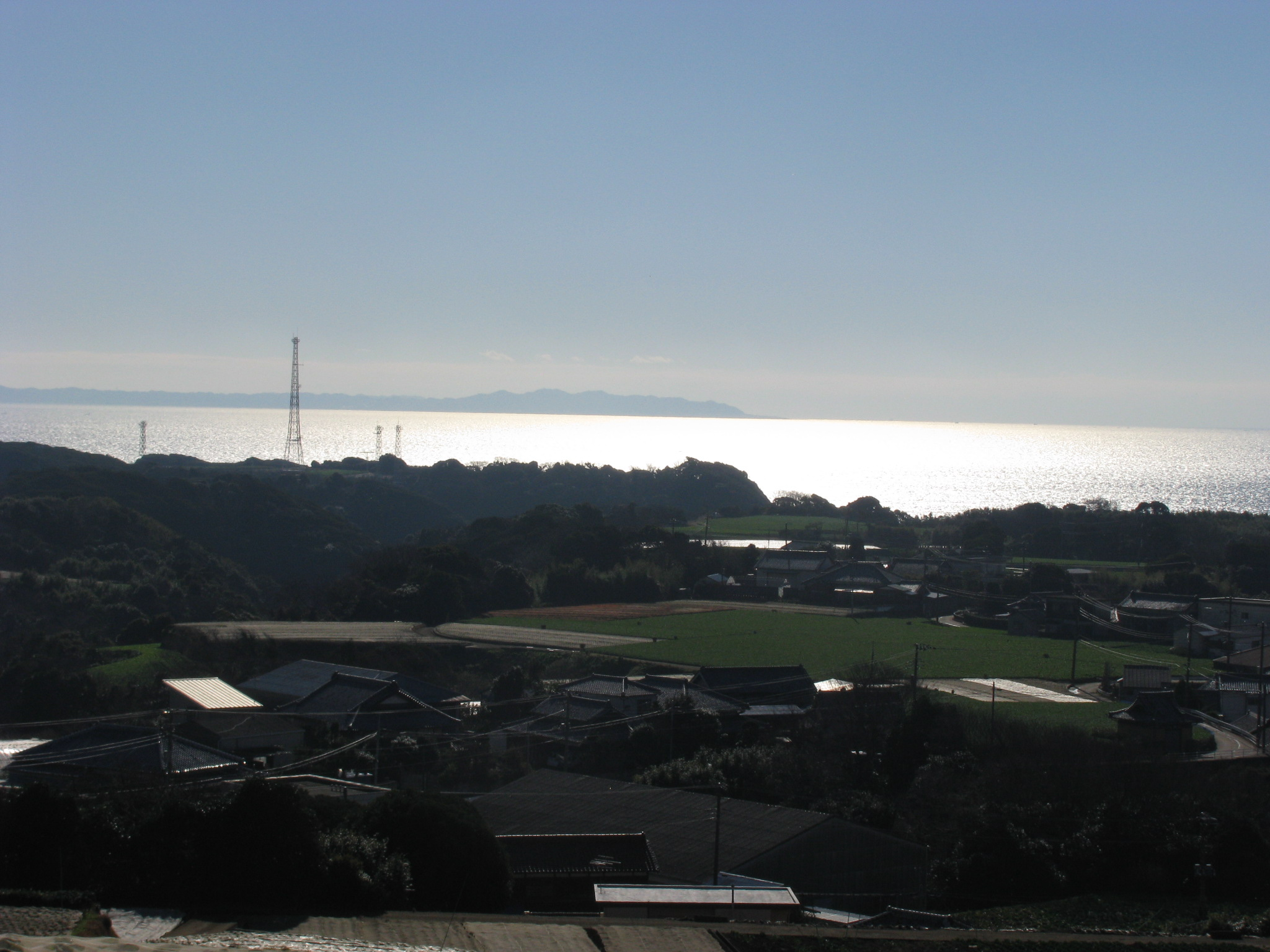 The Uraga-suido (Uraga channel) is a waterway. Look at the Boso Peninsula from the Miura Peninsula.